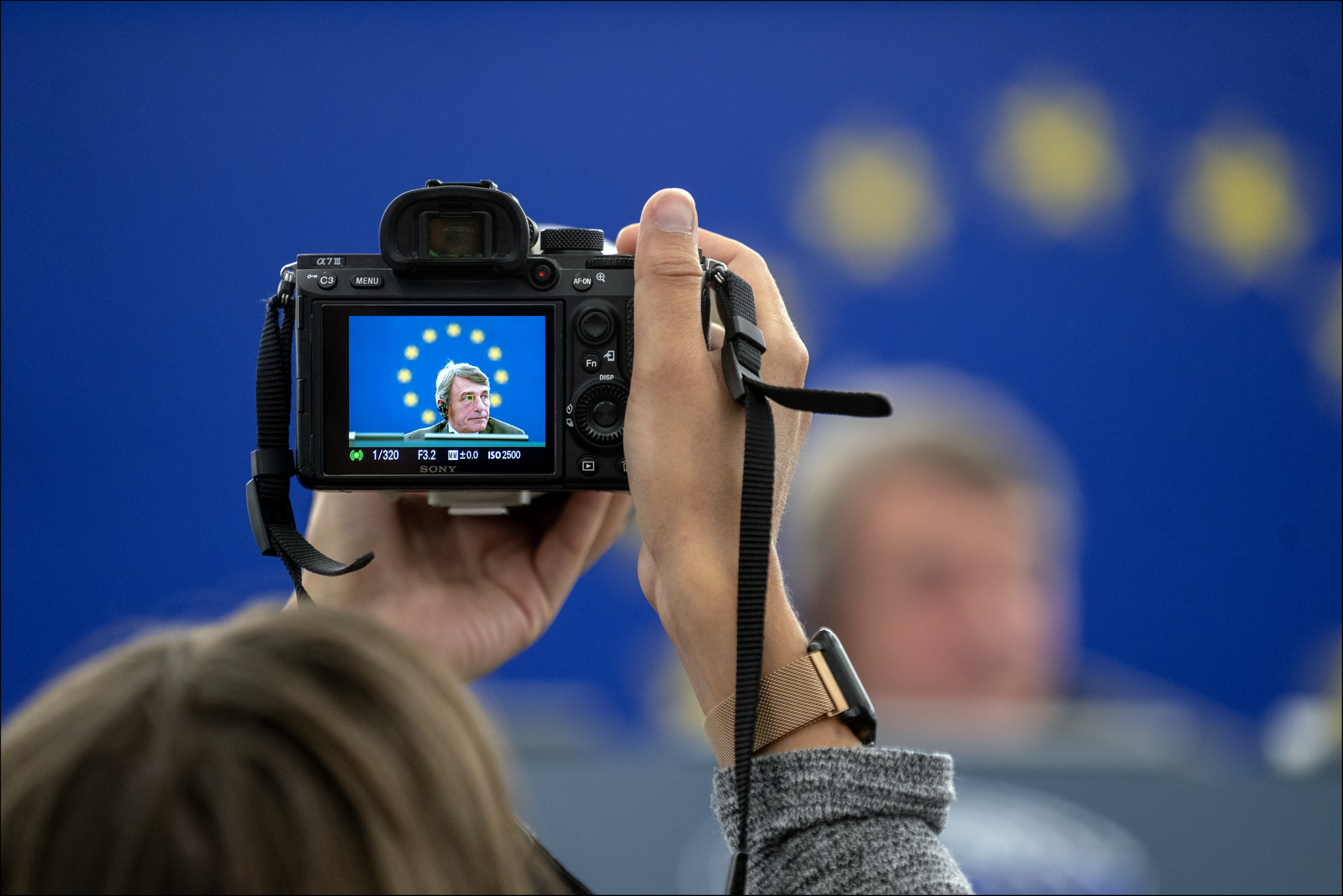 In a debate with MEPs, Ursula von der Leyen outlined her vision as Commission President. MEPs will vote on her nomination, held by secret paper ballot, at 18.00. Read more: This photo is free to use under Creative Commons license CC-BY-4.0 and must be credited: "CC-BY-4.0: © European Union 2019 – Source: EP". No model release form if applicable. For bigger HR files please contact: webcom-flickr(AT)